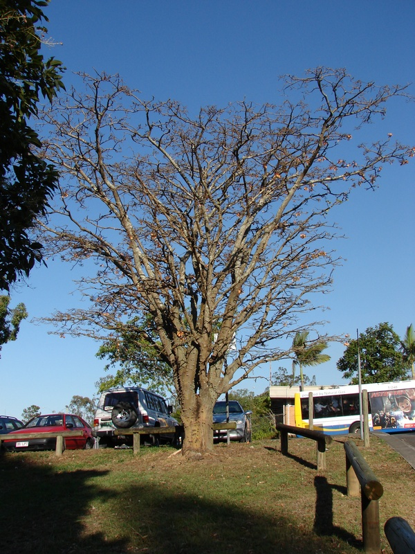 Erythrina velutina tree. Brisbane, Australia.